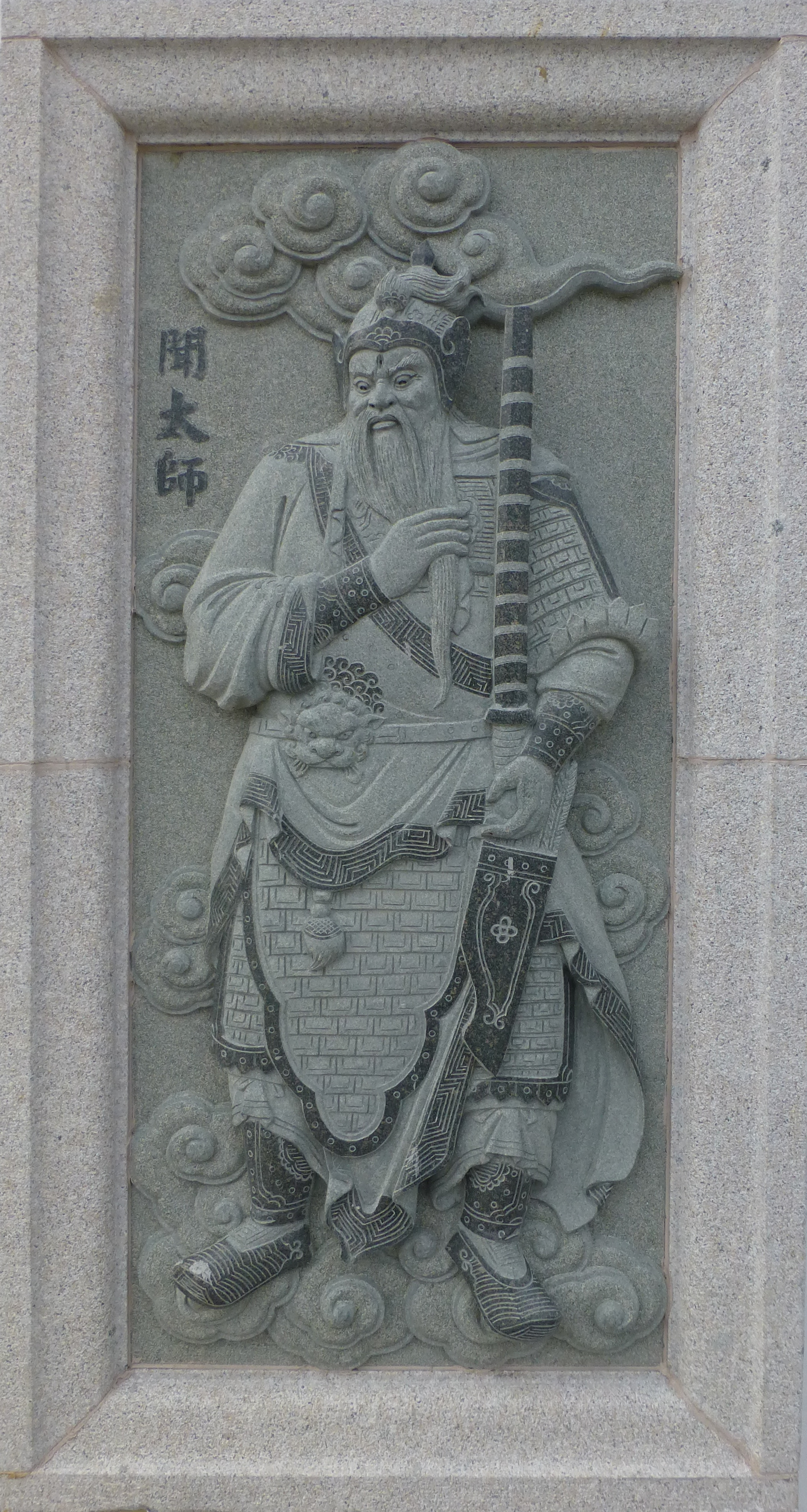 043 Wen tai shi (Wen Zhong of Shang dynasty), Investiture of the Gods at Ping Sien Si, Pasir Panjang, Perak, Malaysia Photograph from the Ping Sien Si Temple in Perak, Malaysia taken by Anandajoti.